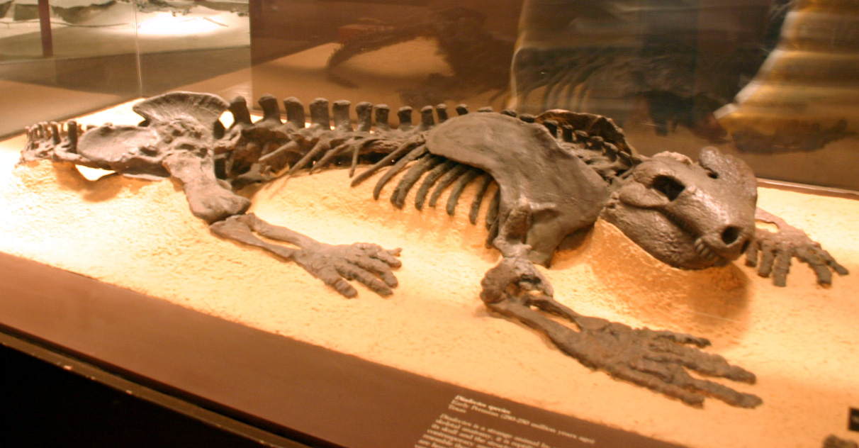 Diadectes, Museum of Natural History Washington, D.C. USA.